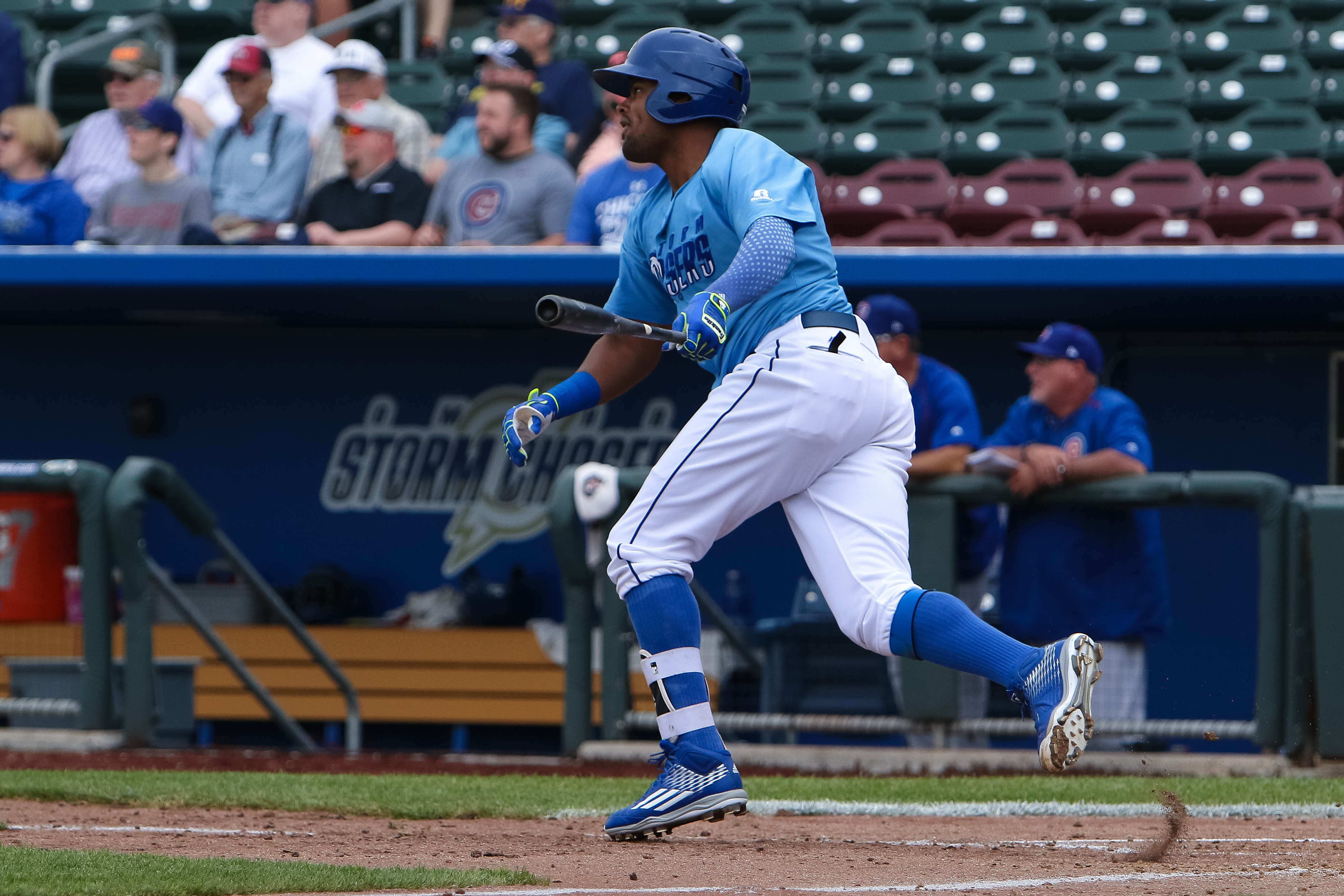 Minda Haas Kuhlmann | 2016 USAGE INSTRUCTIONS: You are welcome to share or publish to your own site or social media account, but you MUST credit me, Minda Haas Kuhlmann, or by my Twitter handle (@minda33) or Instagram (minda.haas).